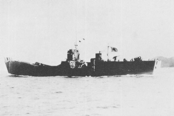 Japanese No.149 landing ship on trial run.